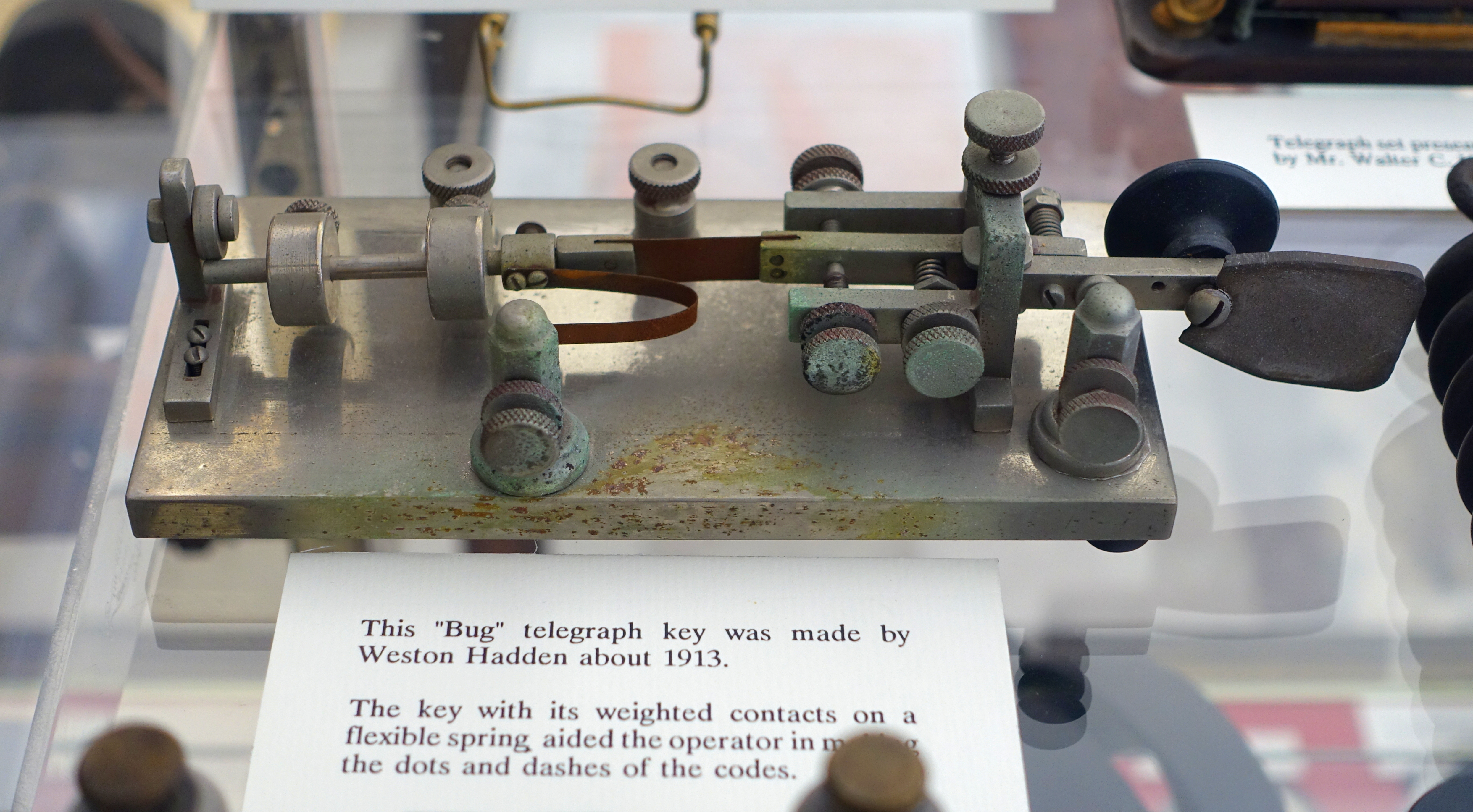 Exhibit in the Bennington Museum - Bennington, Vermont, USA. This work is in the public domain because the artist died more than 70 years ago.